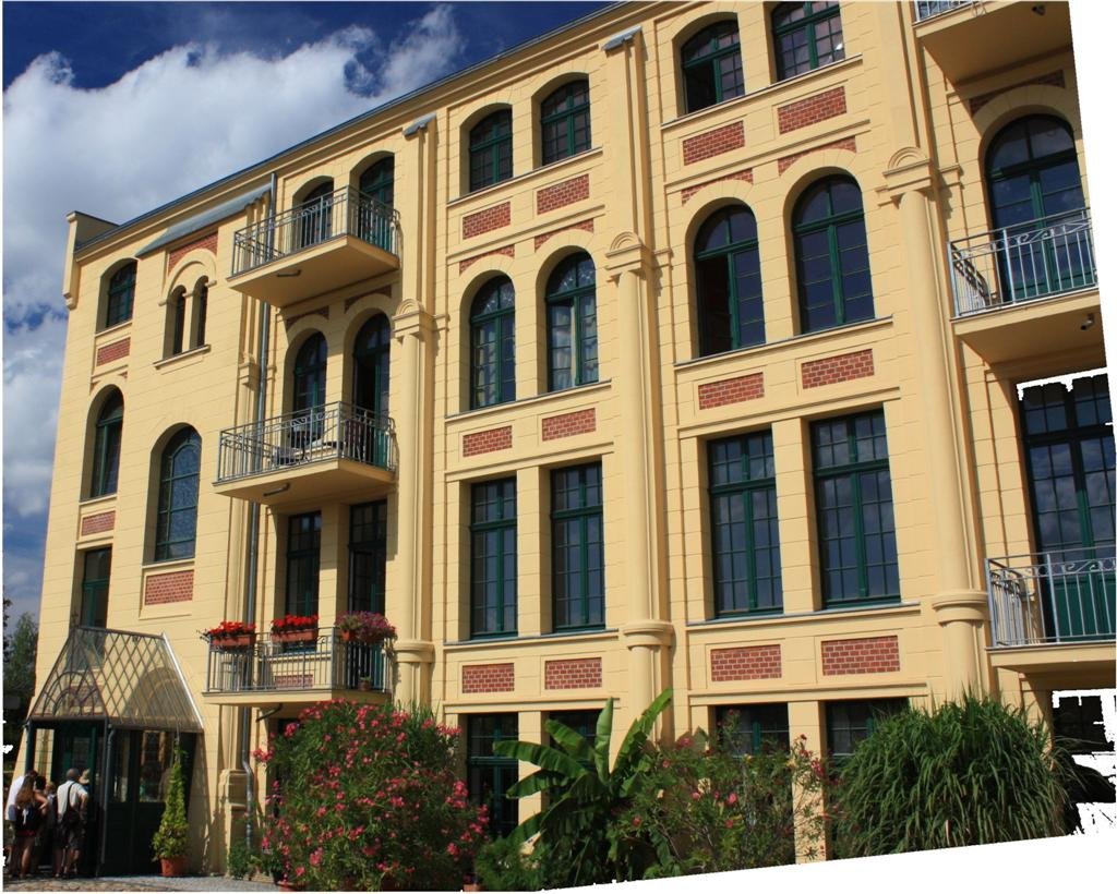 Building in Quedlinburg / Germany